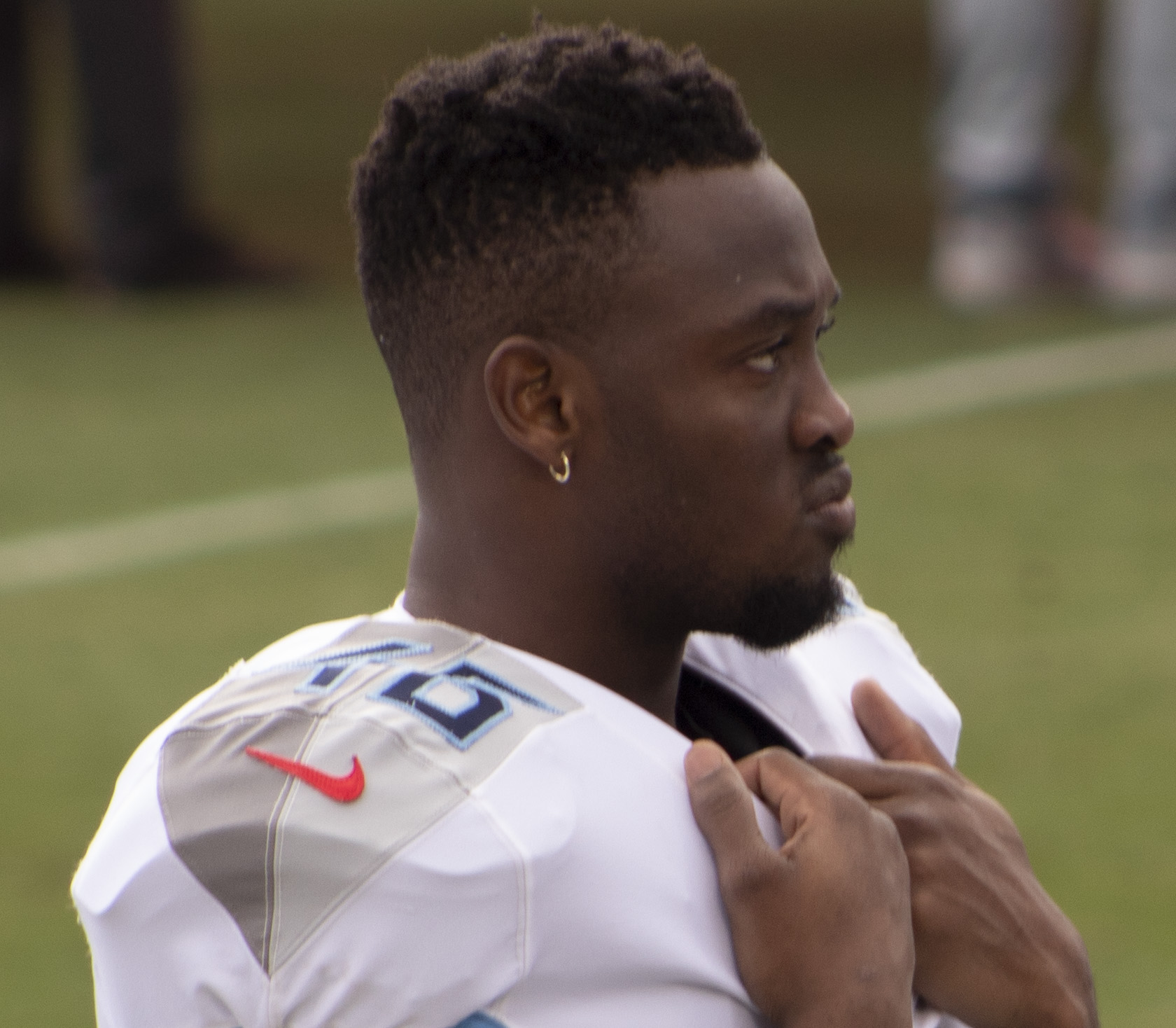 Kalu with the Titans on December 8, 2019